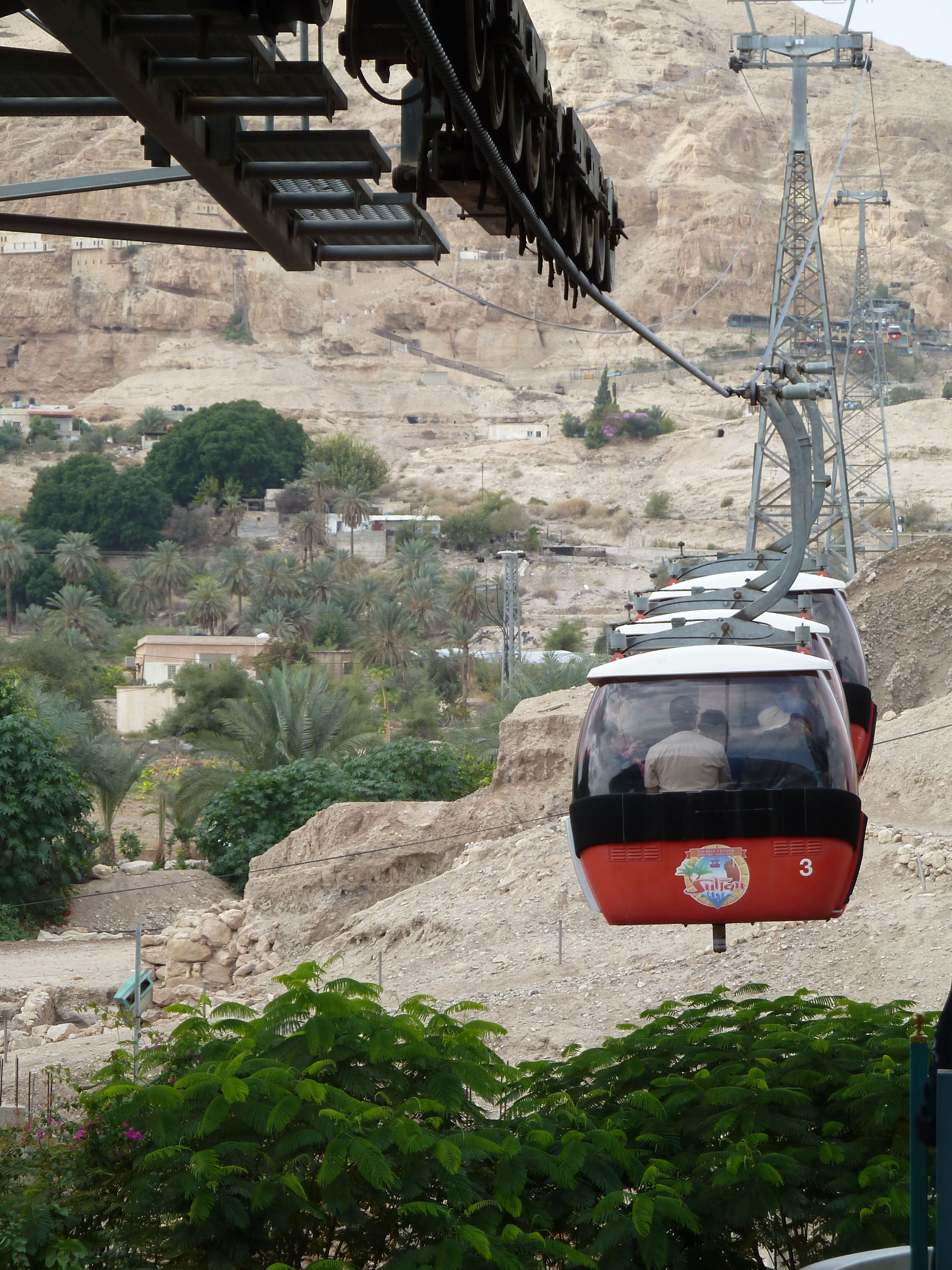 Dir El Qaratal Téléphérique - Monastery of the Temptation's Téléphérique , Cliffs of Doq (Dagon), Jericho